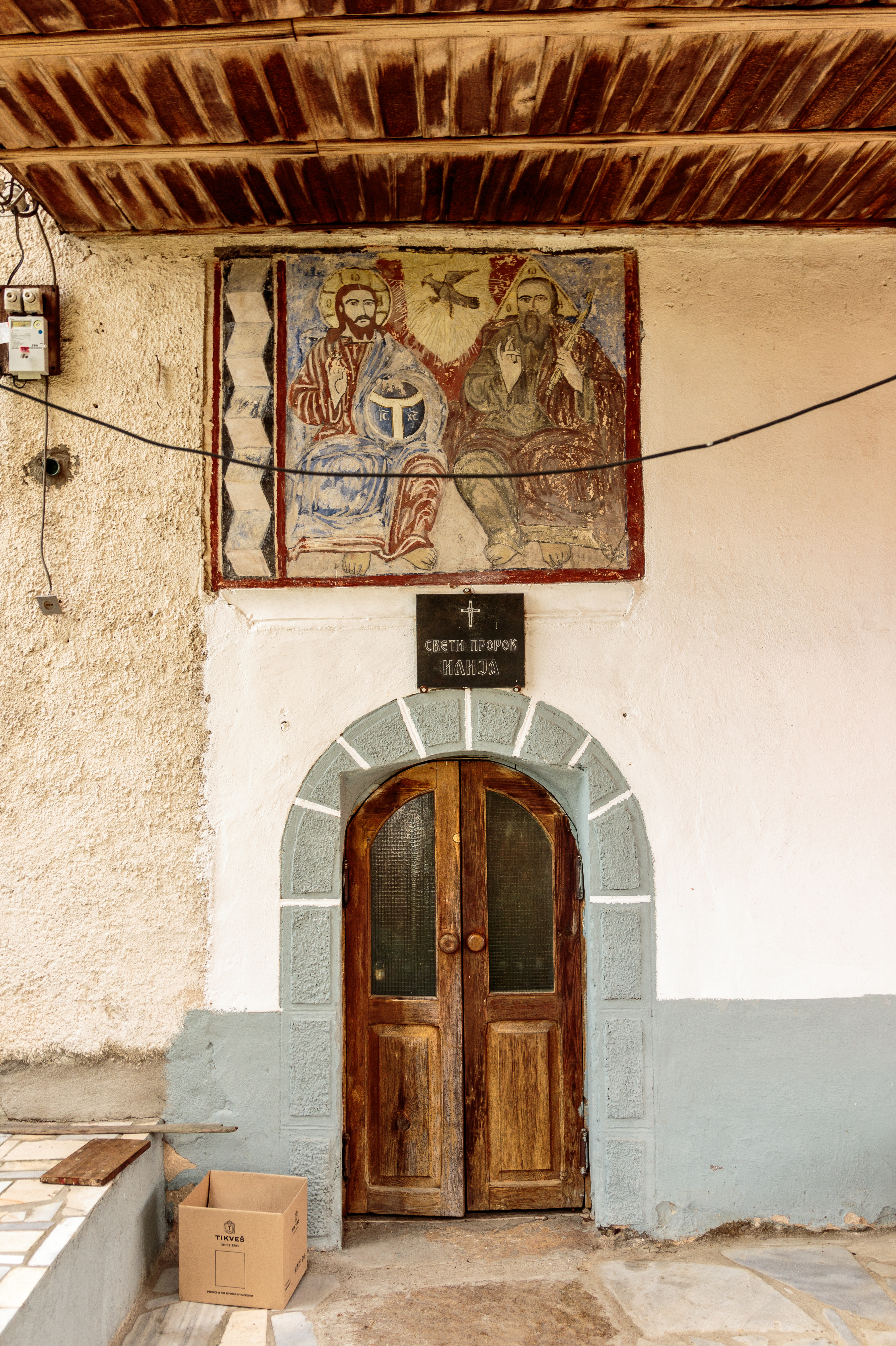 View of the Old St. Elijah's Church in the village of Mitrašinci, Maleševija, Macedonia